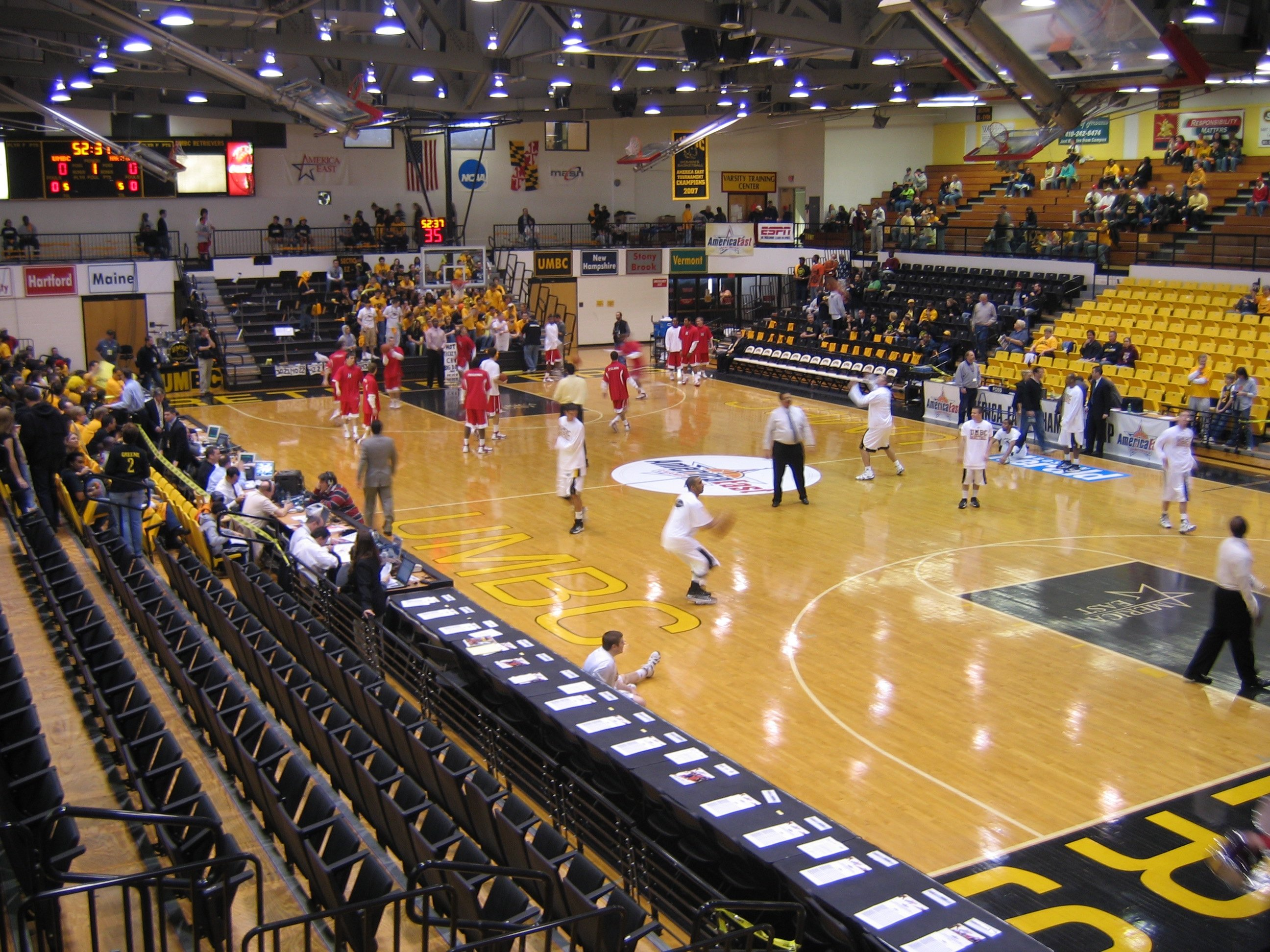 Photo of the Retriever Activities Center on the campus of the University of Maryland, Baltimore County. Taken just under an hour prior to the America East Conference Championship Game against Hartford on March 15, 2008.